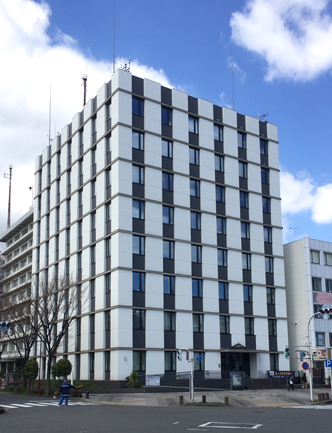 4th Regional Coast Guard Headquarters in Minato-ku, Nagoya